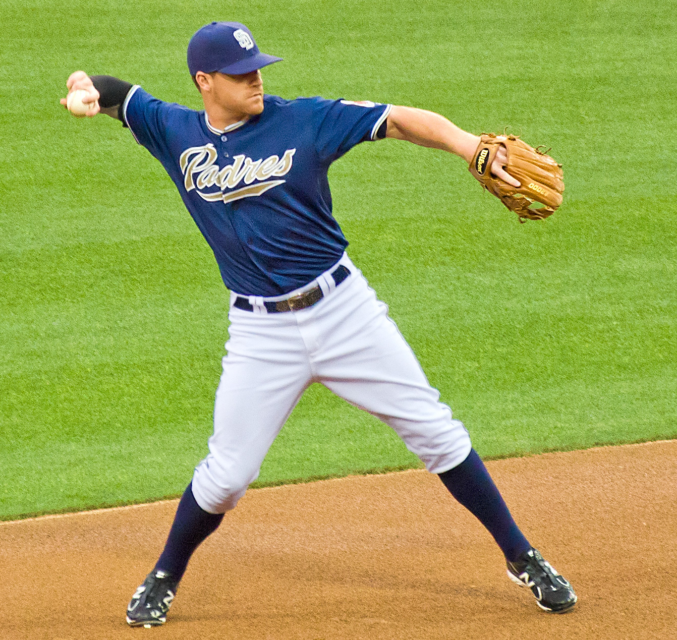 Logan Forsythe